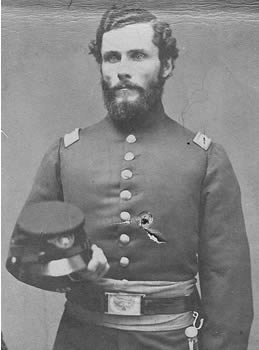 Andrew Jackson Grover: (76th Infantry Regiment) Age, 31 years. Enrolled September 16th, 1861 at Cortland. Mustered into Company A as a captain October 8th, 1861 for a three-year tour of duty. Wounded in action August 28th, 1862 at Gainesville, Va. and discharged for disability December 20th, 1862. Enrolled again and mustered in as a major March 10th, 1863. Killed in action July 1st, 1863 at Gettysburg PA.